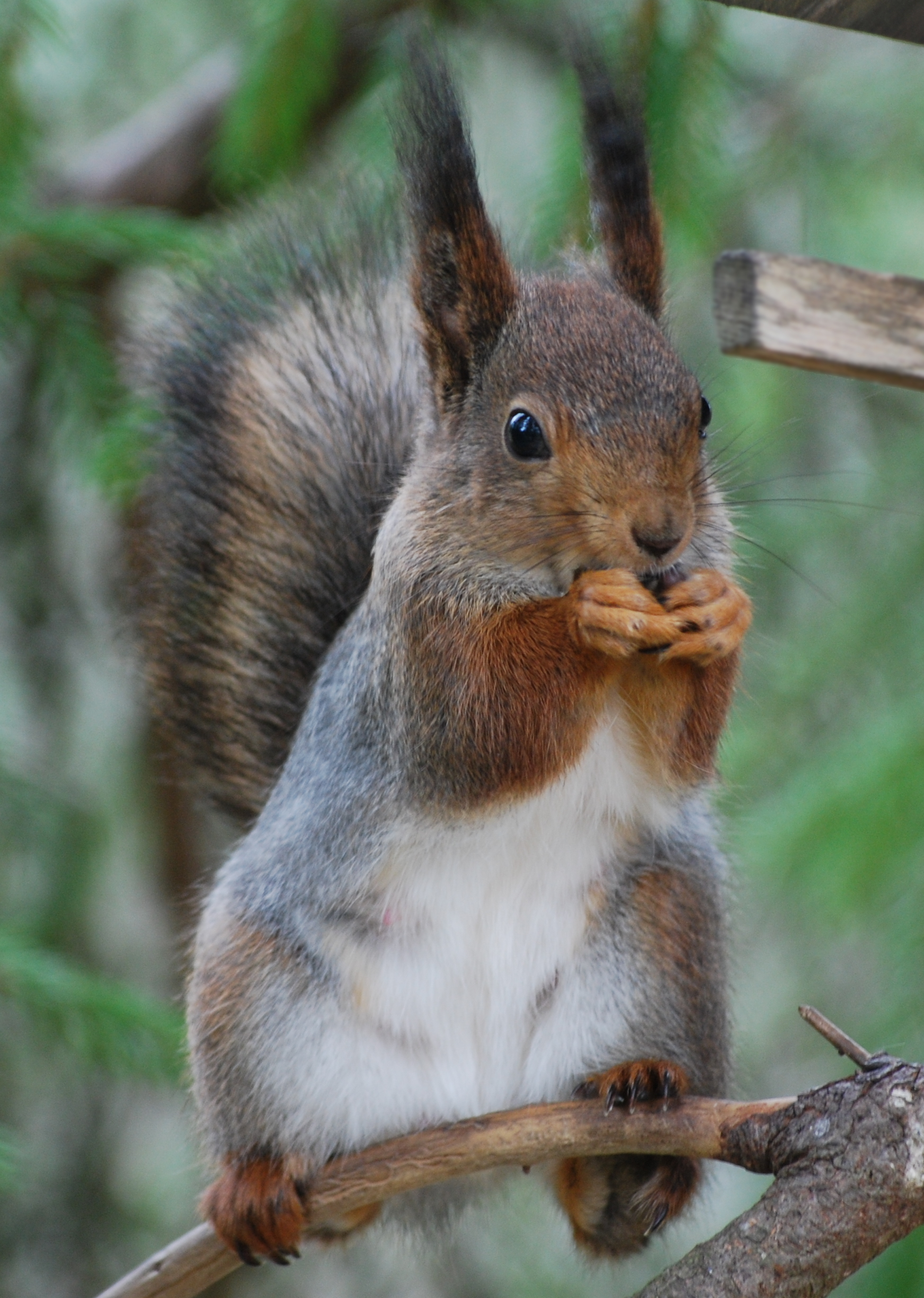 Sciurus vulgaris, Red Squirrel